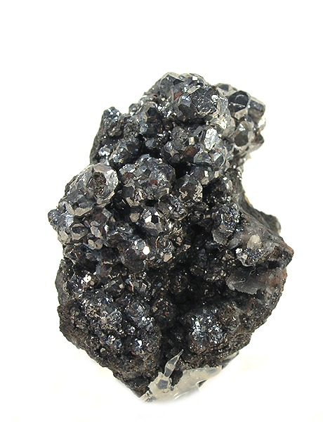 Nickel, Nickelskutterudite, Skutterudite Locality: Schneeberg District, Erzgebirge, Saxony, Germany (Locality at ) Size: miniature, 4.5 x 3.5 x 3.2 cm Chloanthite (Nickel-Skutterudite) An extremely fine miniature with very rich, extremely metallic, lustrous crystals to 7 mm completely covering the display face and cascading down the matrix. VERY FINE example of this old German classic! In person, this is a very 3-dimensional piece and it is MUCH MUCH BETTER IN PERSON as the metallic lustre and form make it hard to photograph. ex. Richard Kosnar Collection.